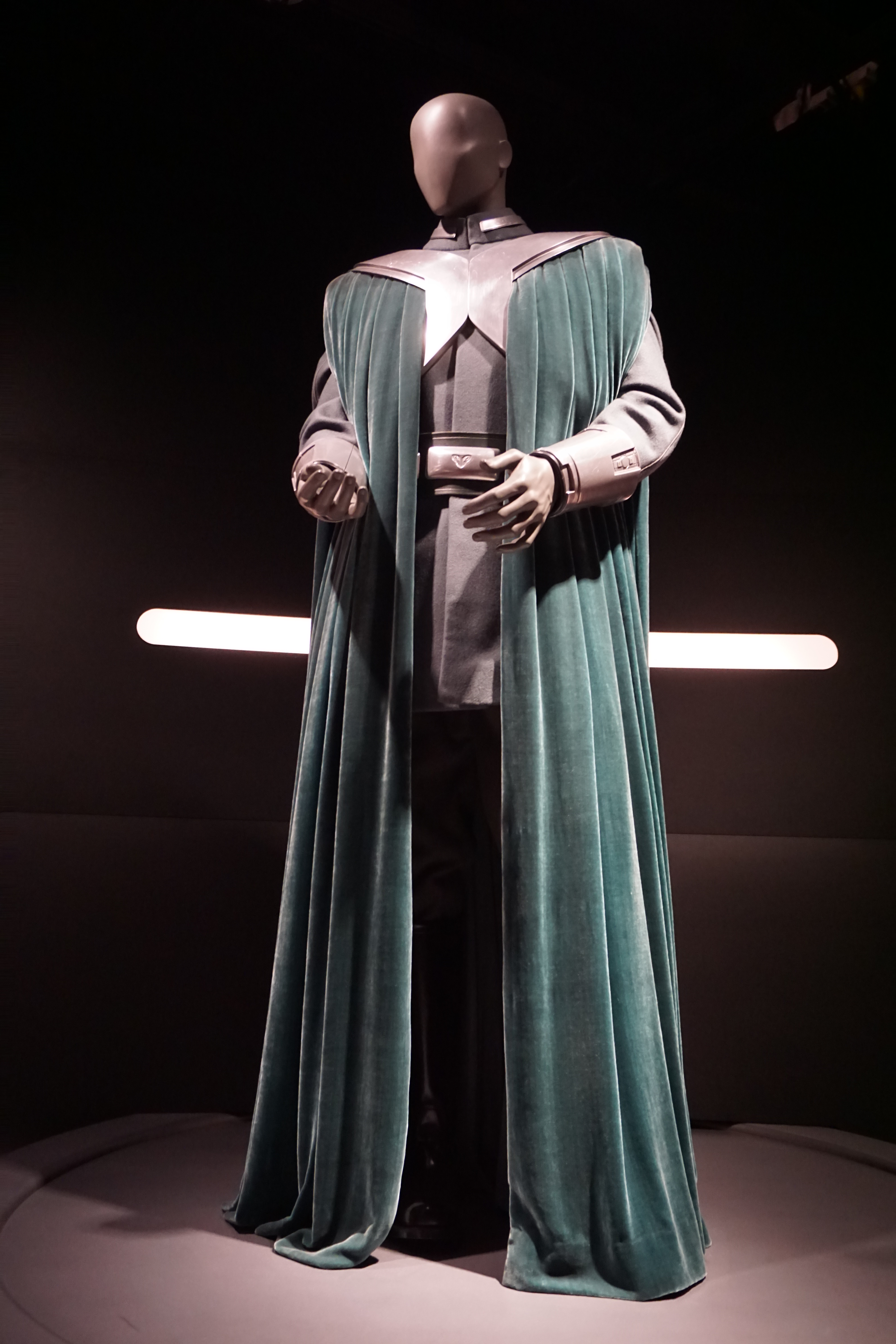 Bail Organa's Senate robes from Star Wars: Episode III – Revenge of the Sith on display at the Star Wars and the Power of Costume traveling exhibit at the Detroit Institute of Arts in Detroit, Michigan (United States).